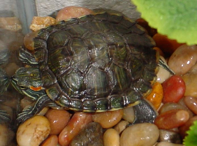 Red Eared Slider